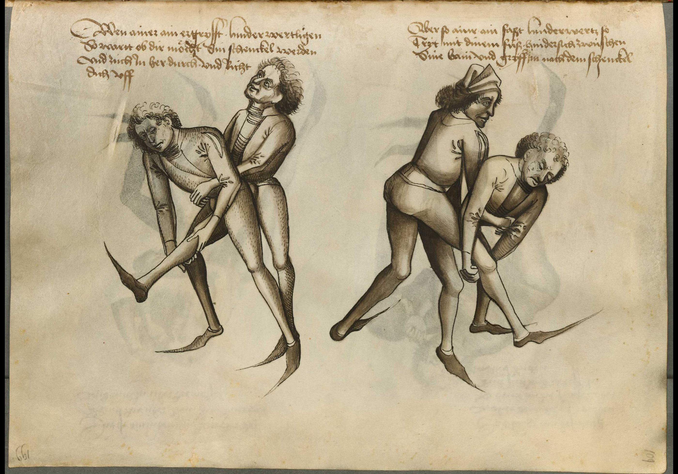 This is a scan of the historical Fechtbuch ('fencing book') by German fencing master Hans Talhoffer.